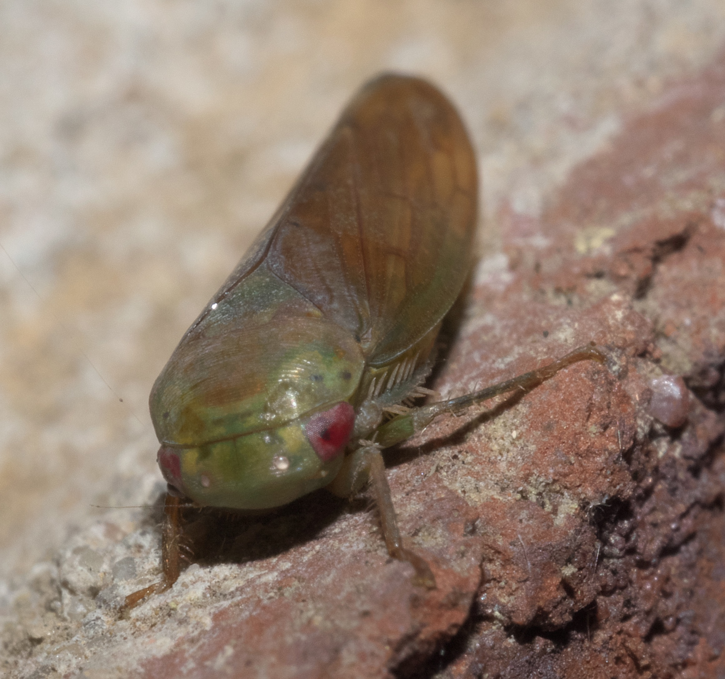 Polana, Family: Leafhoppers, ID Confidence: 98